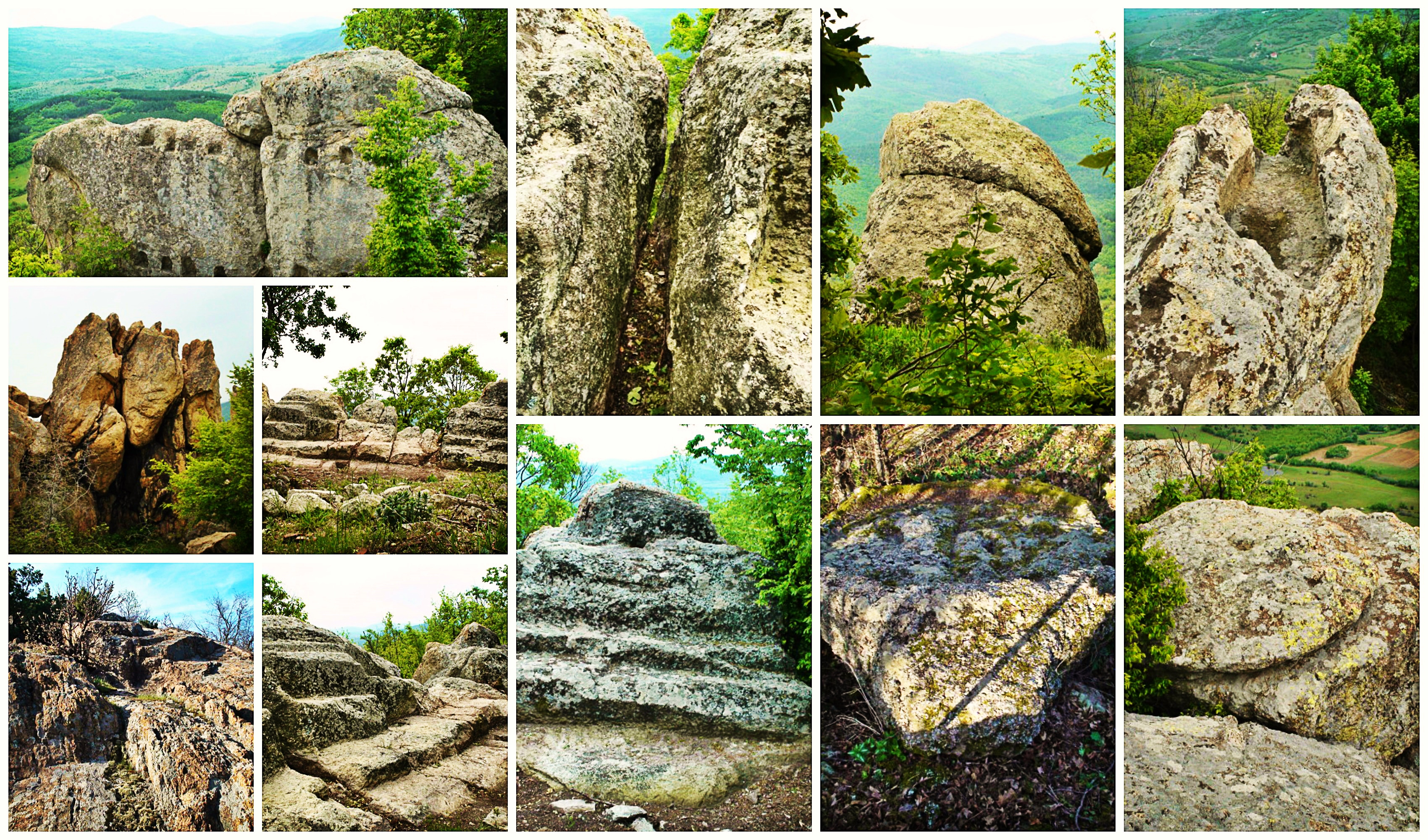 Angel Voivoda Sanctuary Complex East Rhodopes Bulgaria